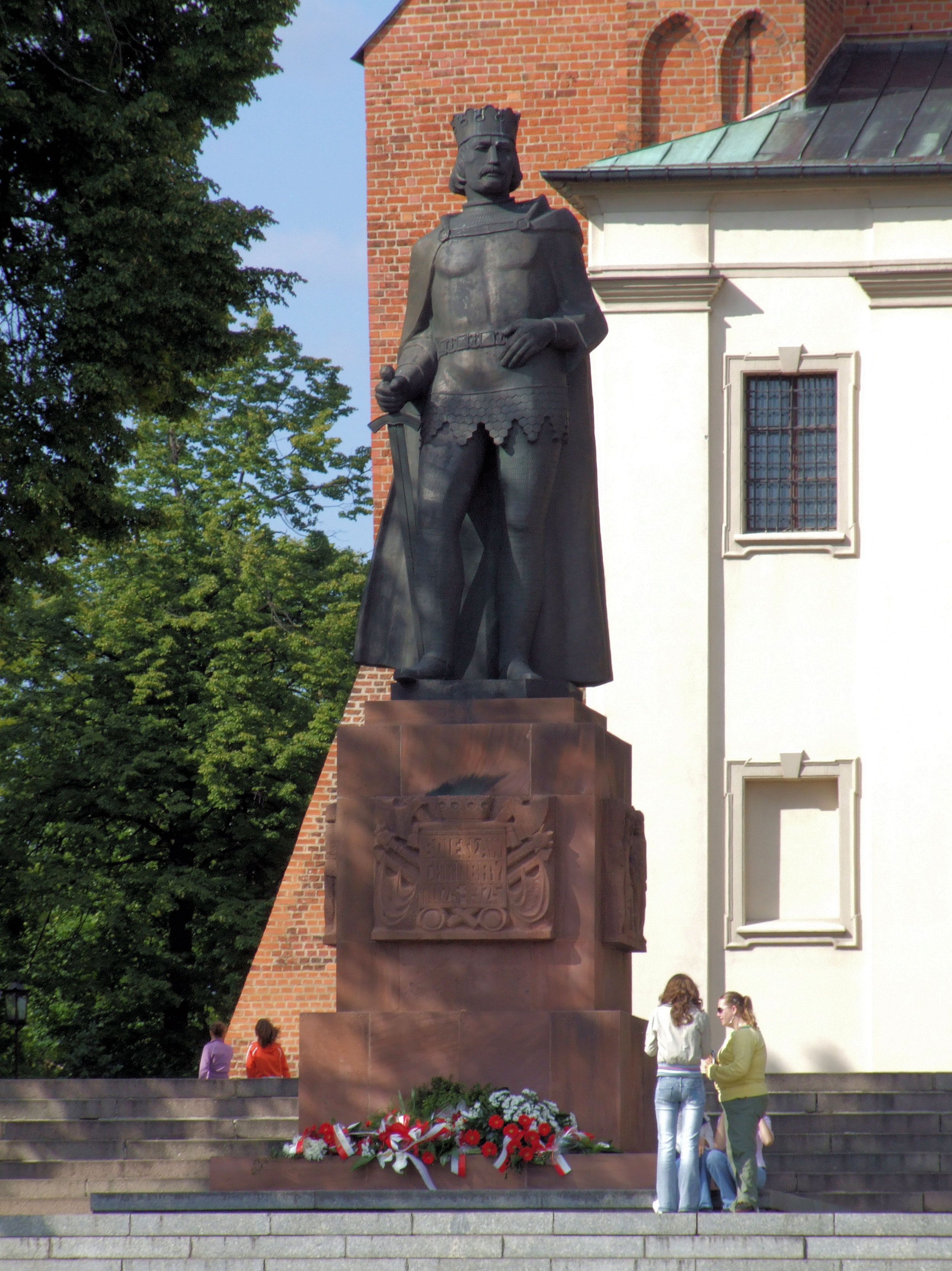 Bolesław I the Brave statue at Gniezno